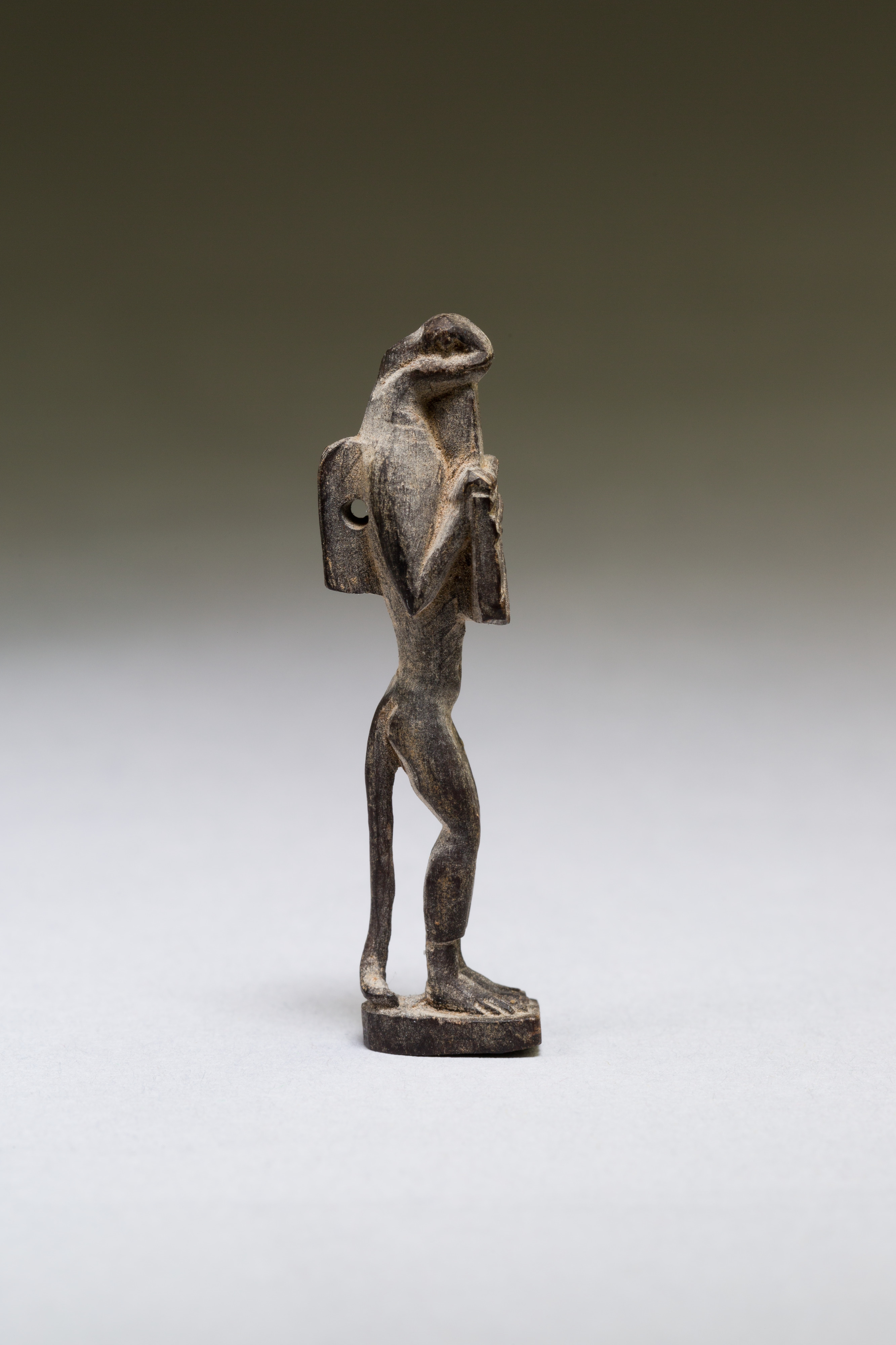 Figurine, Nehebkau, snake